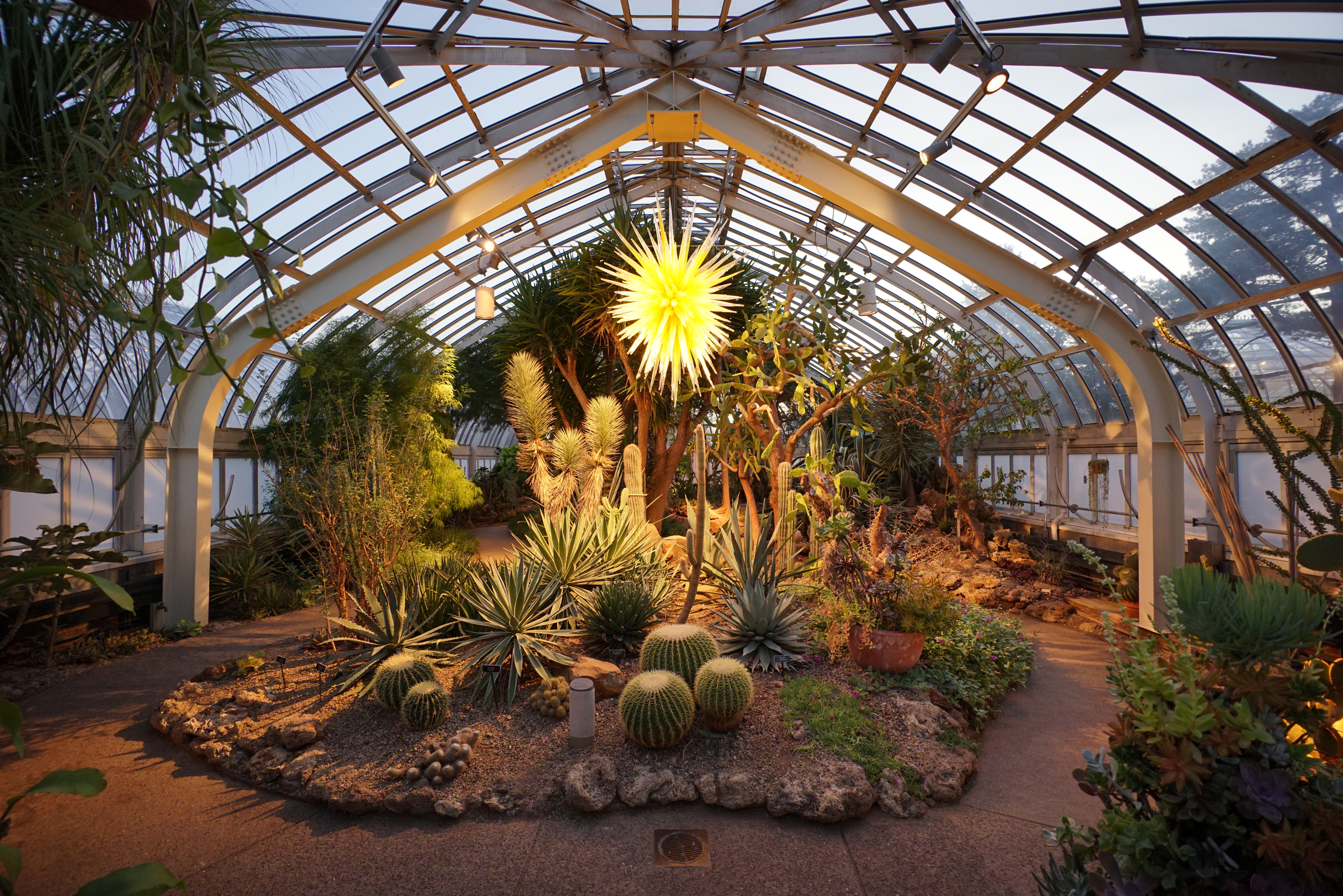 The desert plants exhibit at the Phipps Conservatory. The Phipps Conservatory and Botanical Gardens is a complex of buildings and grounds set in Schenley Park, Pittsburgh, Pennsylvania. Founded in 1893, the gardens serve to educate and entertain the people of Pittsburgh with formal gardens.